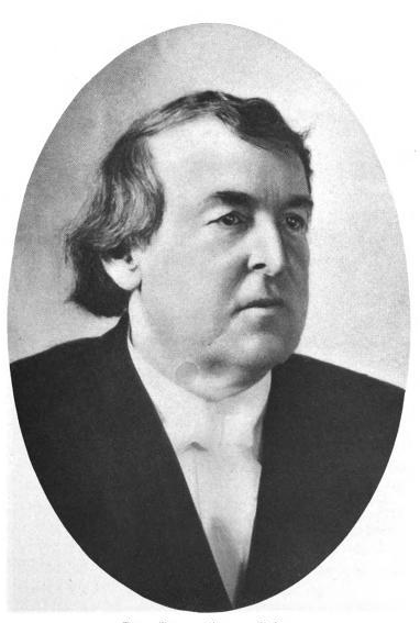 Portrait of David Gregg, minister of Park St. Church, Boston